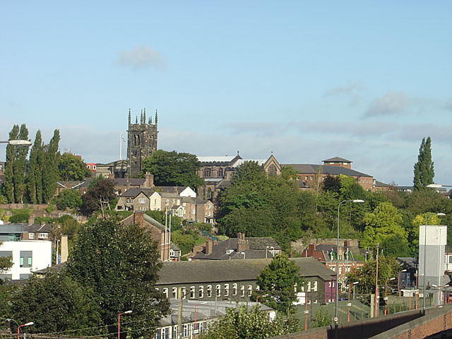 The parish church seen from Green Street The church is a prominent feature, having been built on the highest part of the old town.